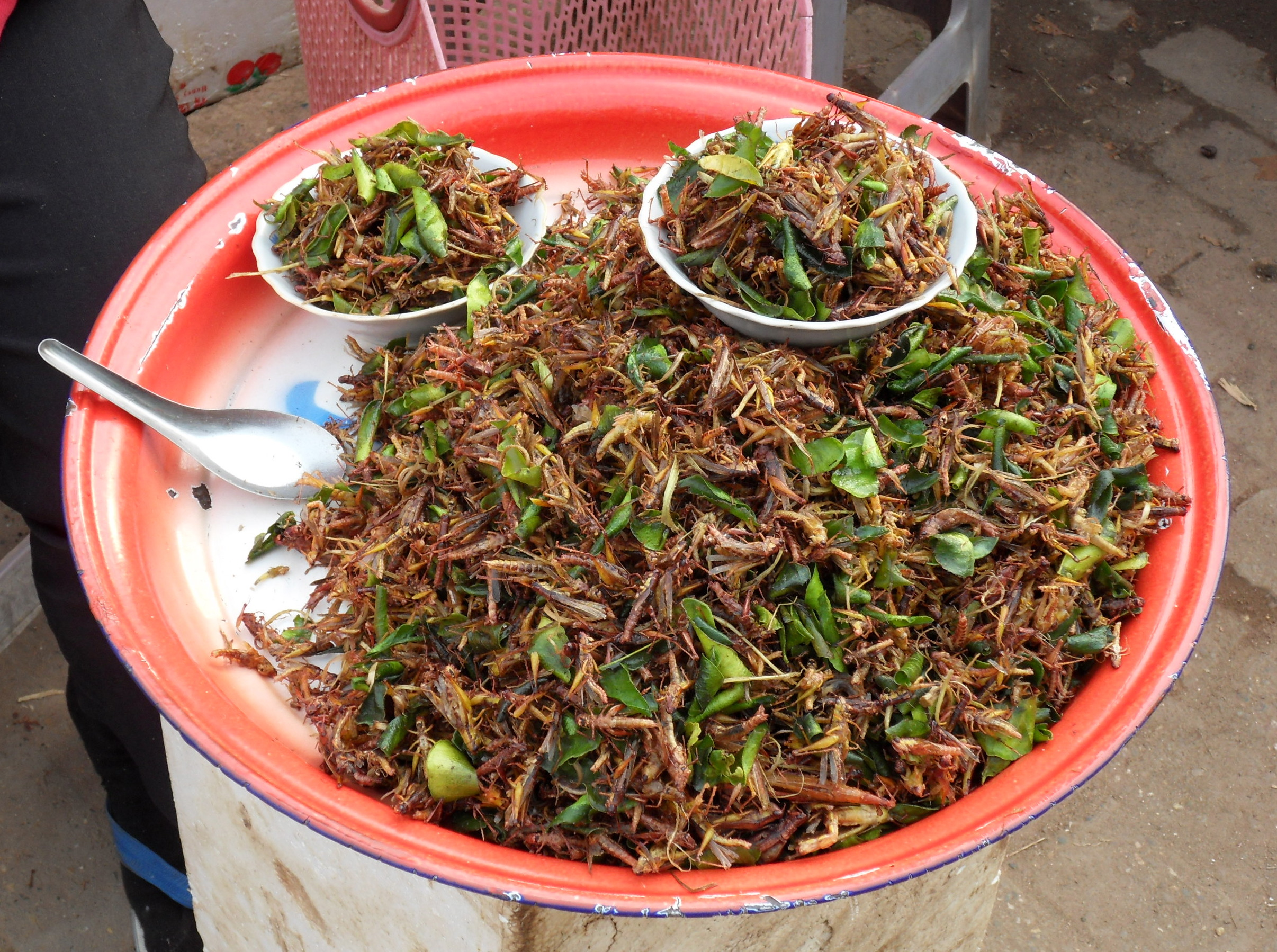 Fried insects in Laos (Vientiane, 2010)